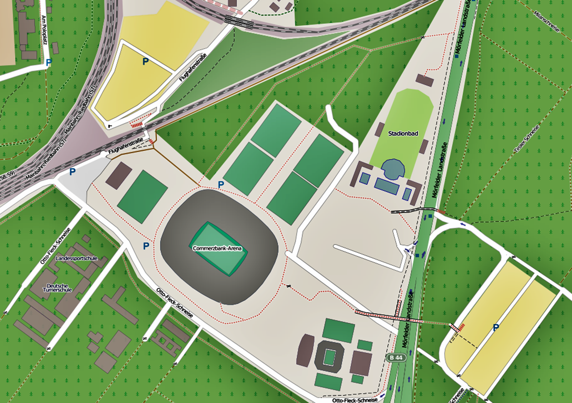 This map may be incomplete, and may contain errors. Don't rely solely on it for navigation.